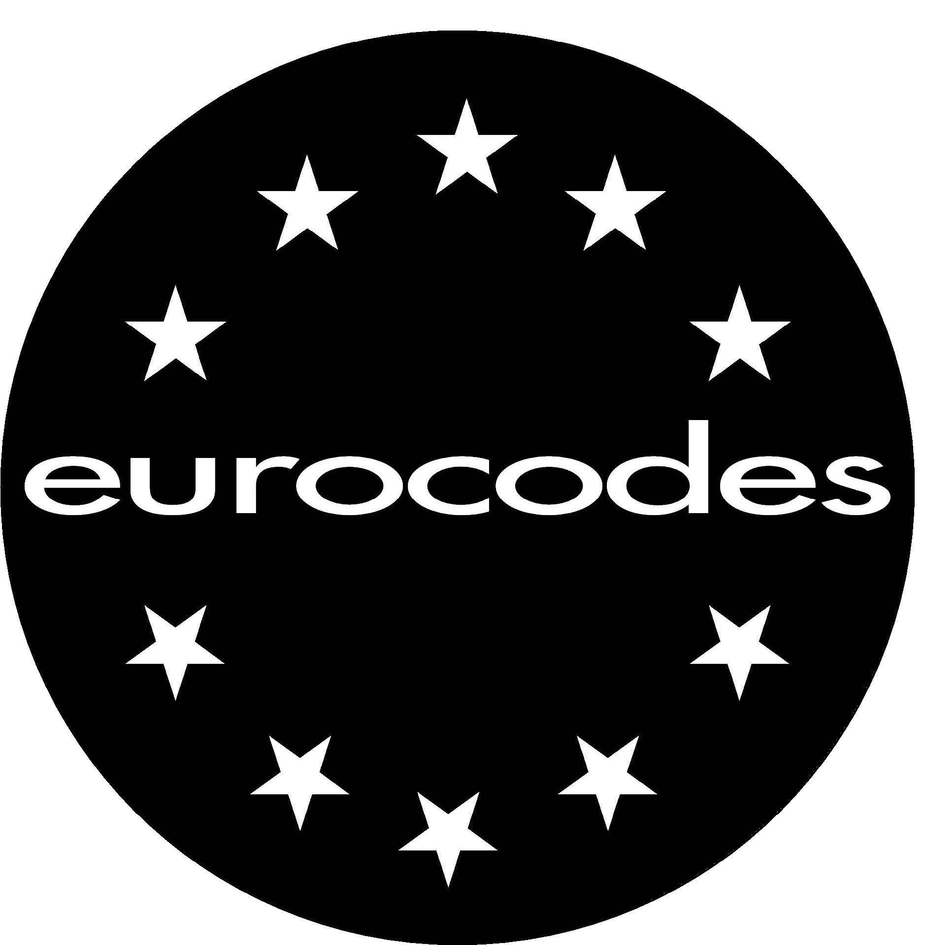 Eurocodes logo